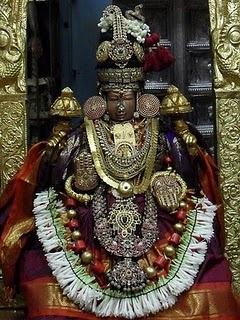 Sri Perundevi